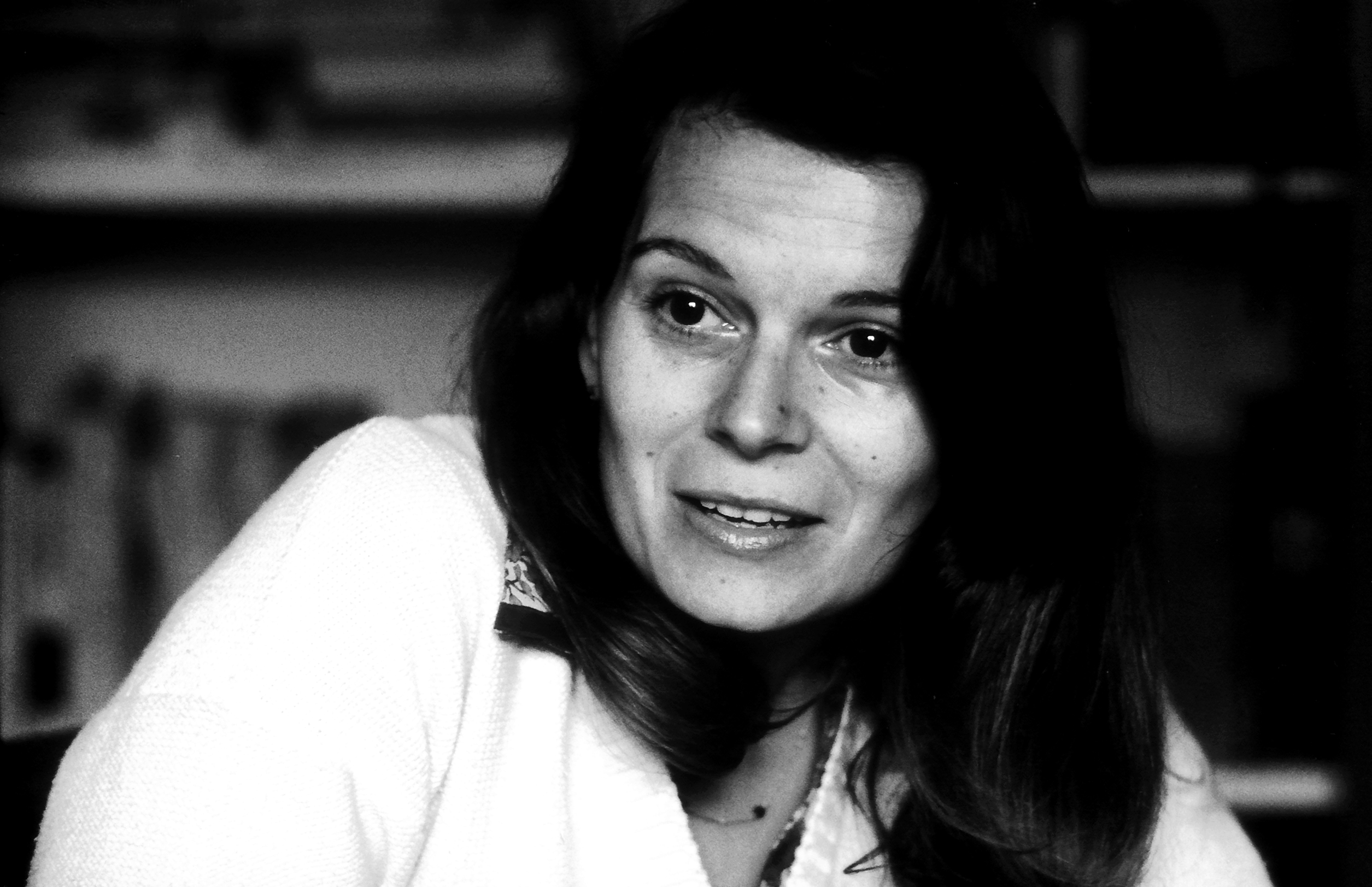 Escritora mallorquina